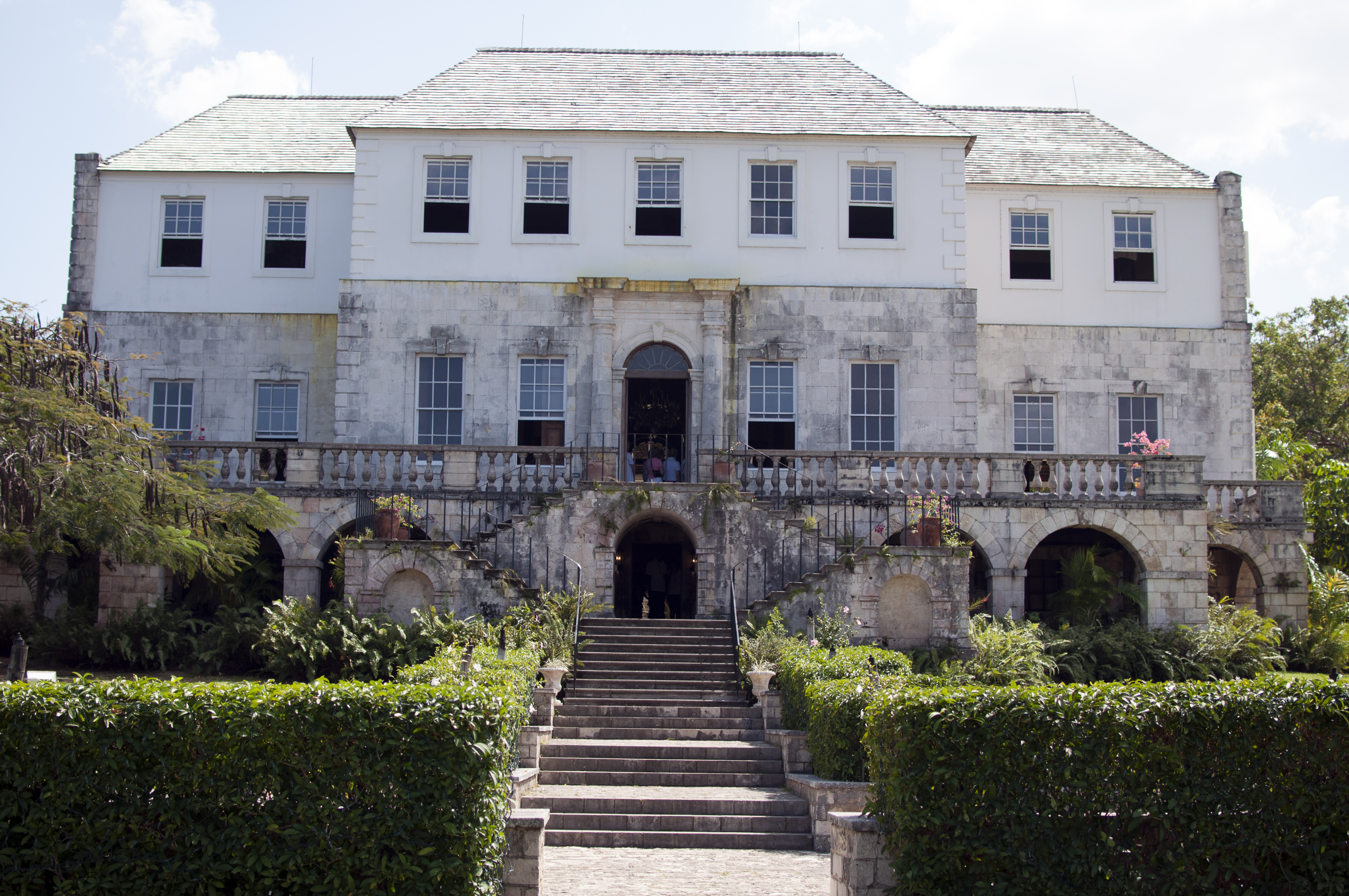 Rose Hall House, Jamaica: Photo D Ramey Logan